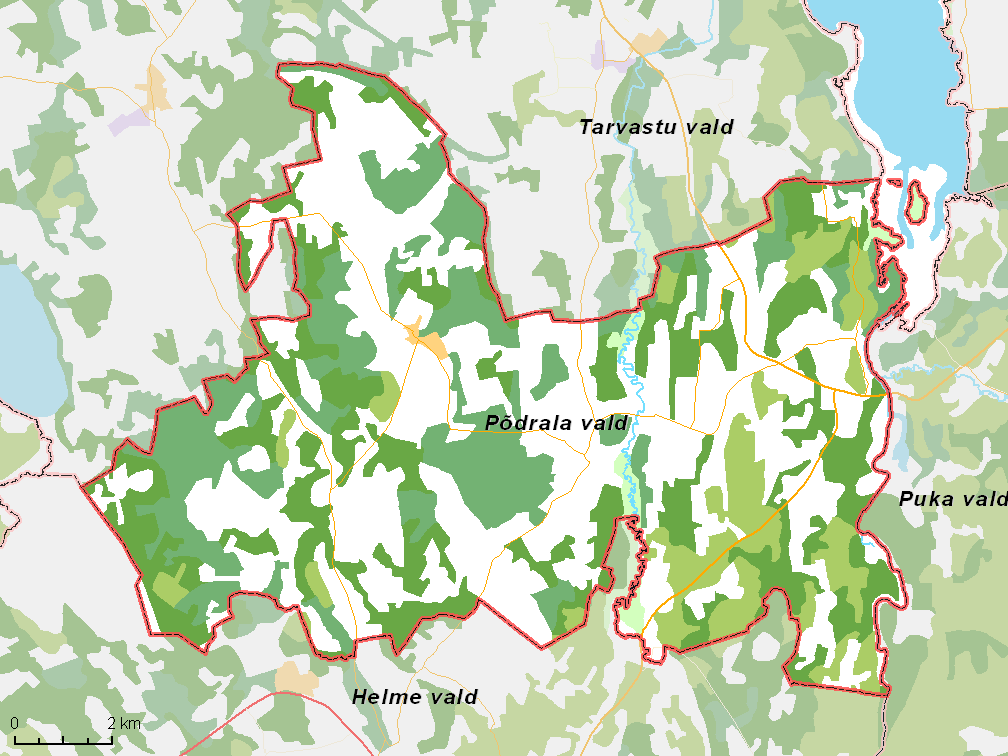 Map of municipality in Estonia